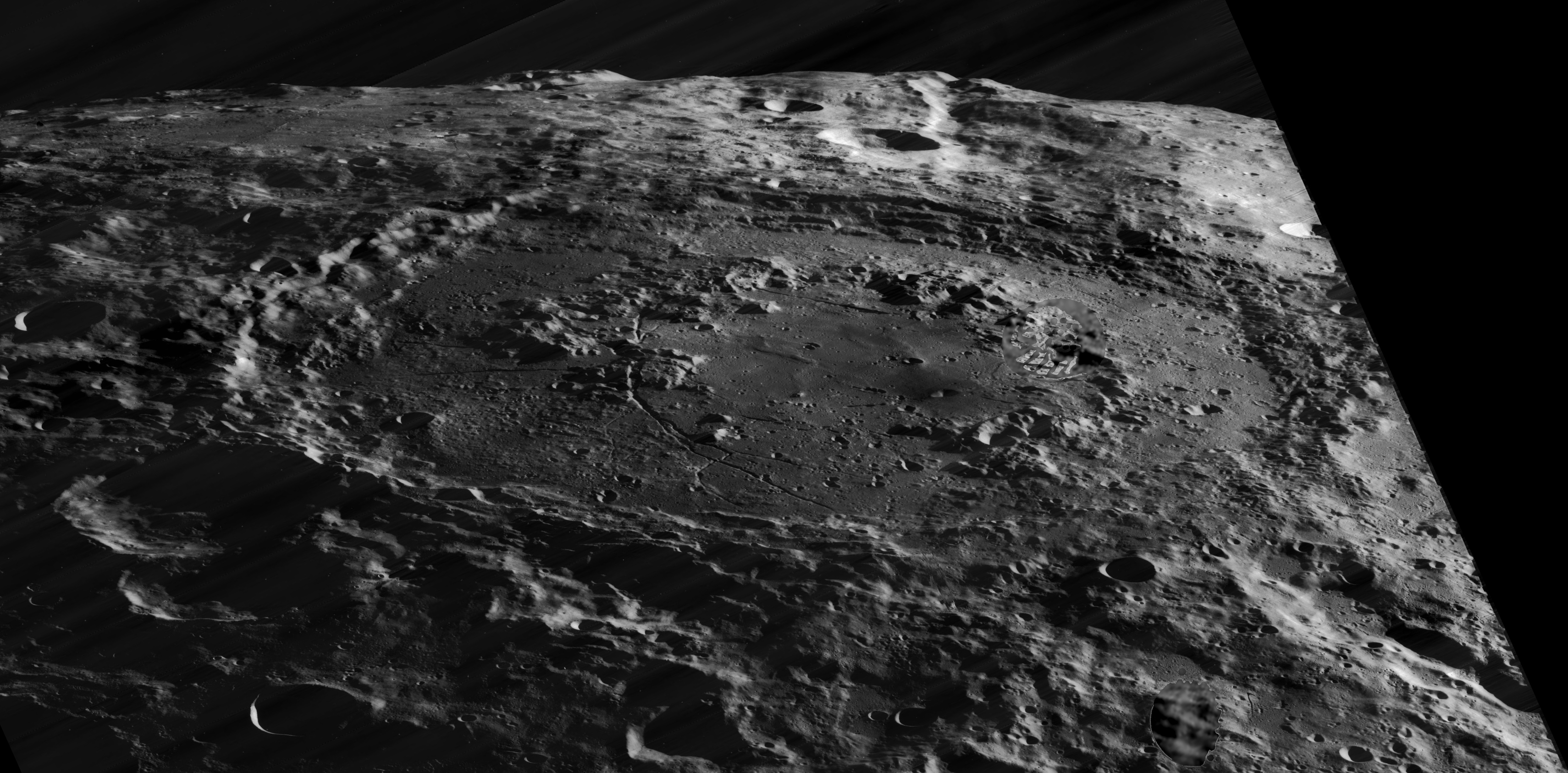 Oblique view of Schrodinger, on the far side of the moon, facing north. Vallis Planck is visible on the horizon. The circular spot right of center is a blemish on the original.